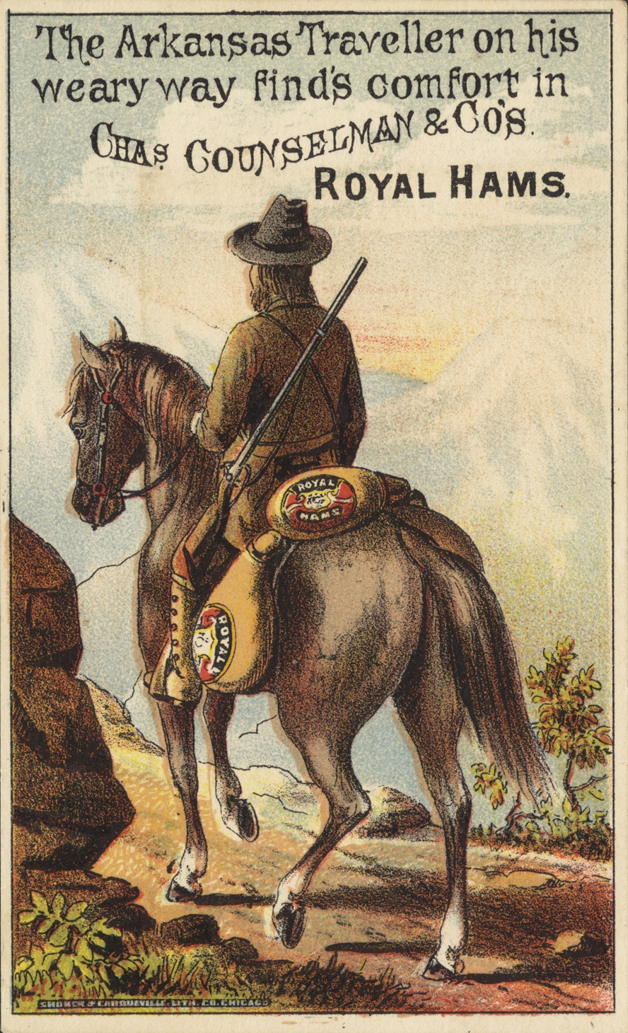 The Arkansas traveller on his weary way finds comfort in Chas. Counselman & Co's Royal Hams. Chromolithograph, c. 13 x 8 cm, advertising card by Shober & Carqueville Lith Co., Chicago, c. 1870-1900. This public domain image was published on Flickr by the Boston Public Library, Print Department, and licensed CC-BY 2.0.